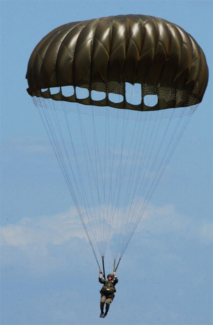 A USMC Paratrooper, public domain photo from usmc.mil